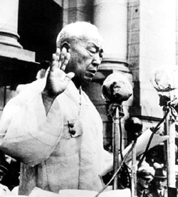 South Korean Founder Syngman Rhee's